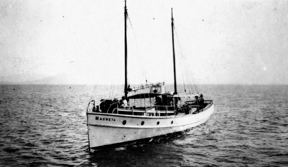 Magneta (ship) Passenger launch/ferry - Townsville to Magnetic Island. 1922. (Description supplied with the photograph).